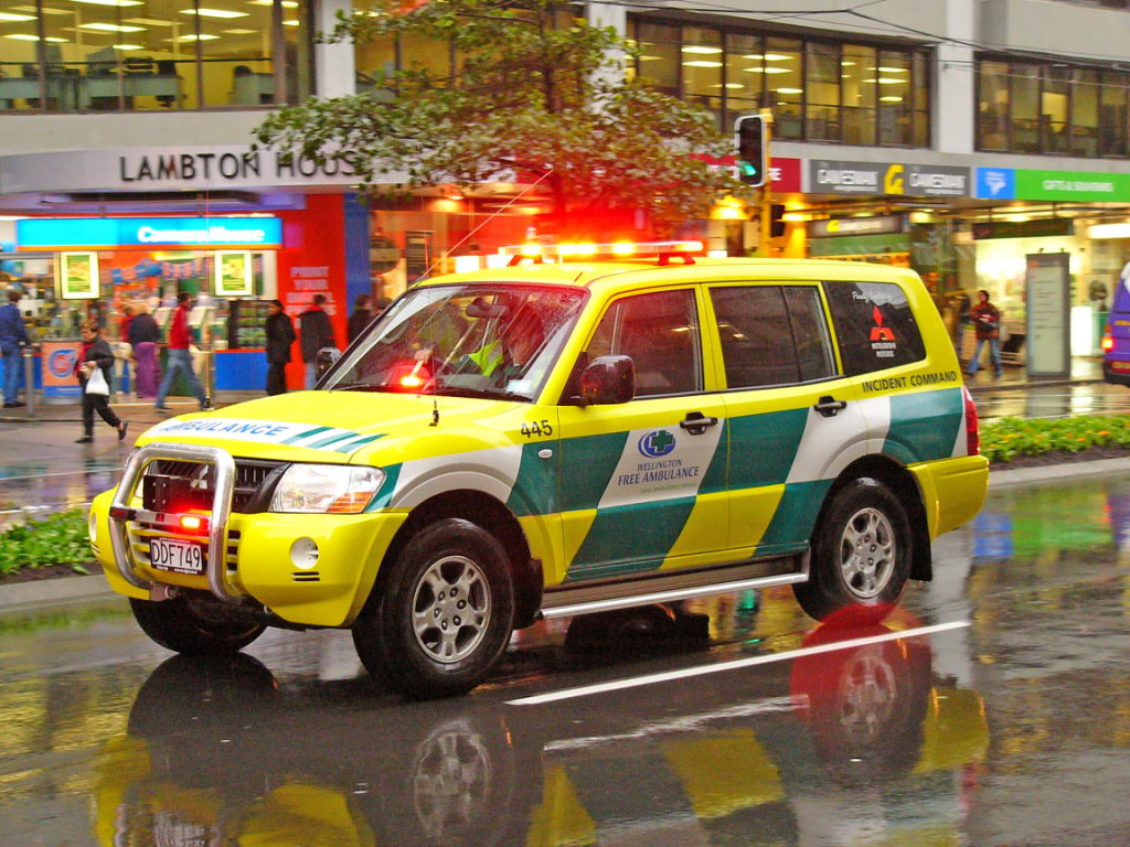 Wellington Free Ambulance, Mitsubishi Pajero.